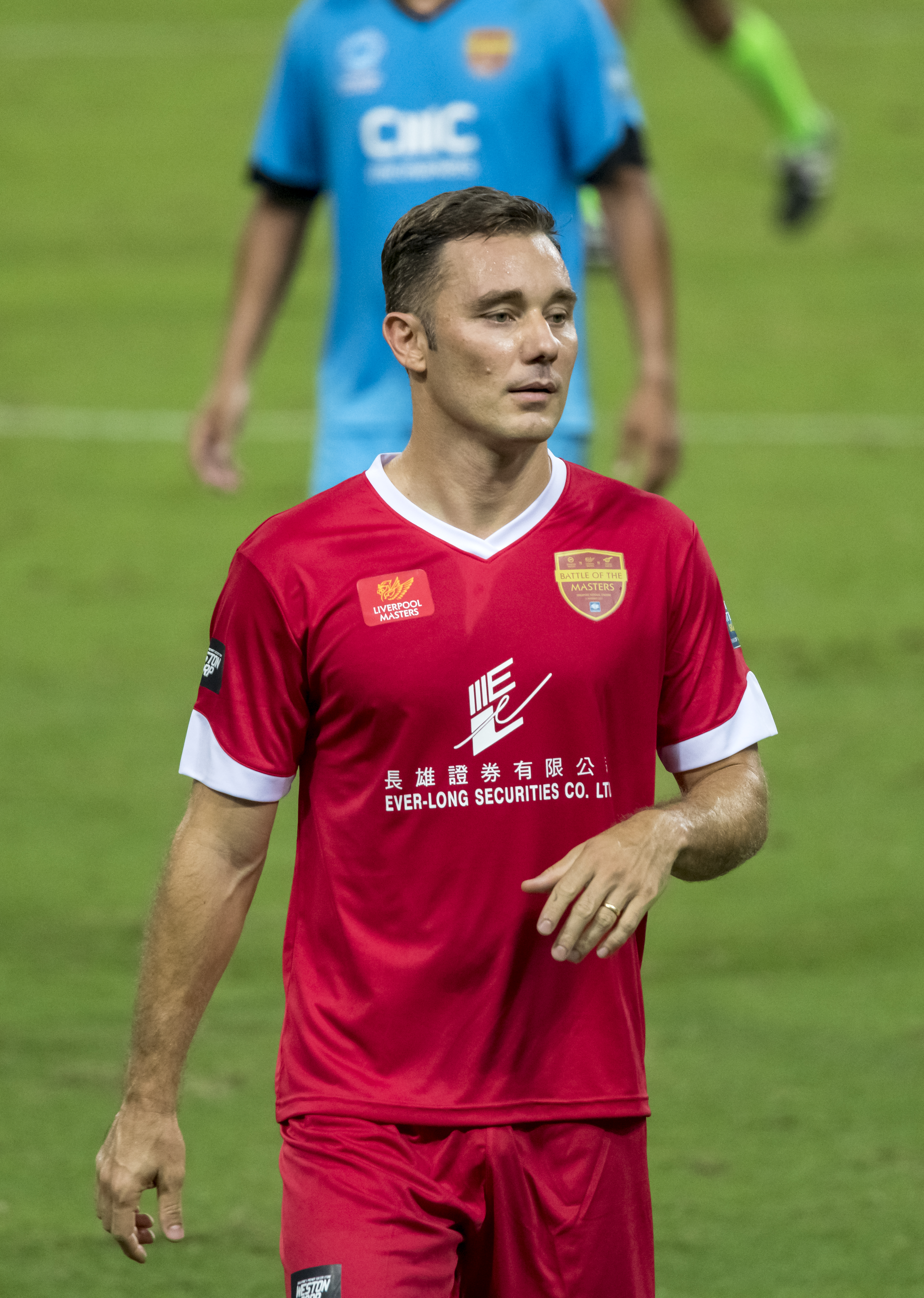 Fábio Aurélio liverpool masters singapore national stadium 2017